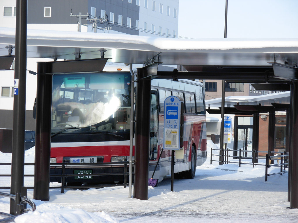 Furano sta. bus terminal bus stop and Highway bus "Furano-gou" ふらの駅前バスターミナルバス乗り場（車両は高速ふらの号）